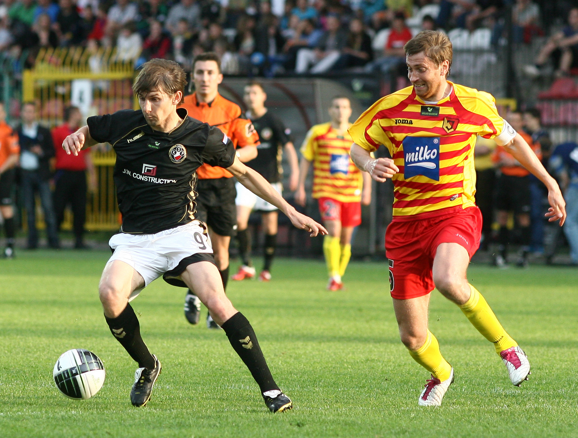 Euzebiusz Smolarek (left) of Polonia Warszawa versus Andrius Skerla (right) of Jagiellonia Białystok in an Ekstraklasa match